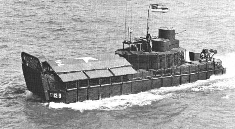 A U.S. Navy Armoured Troop Carrier (ATC) of River Aussault Division 112 in Vietnam, circa 1968.